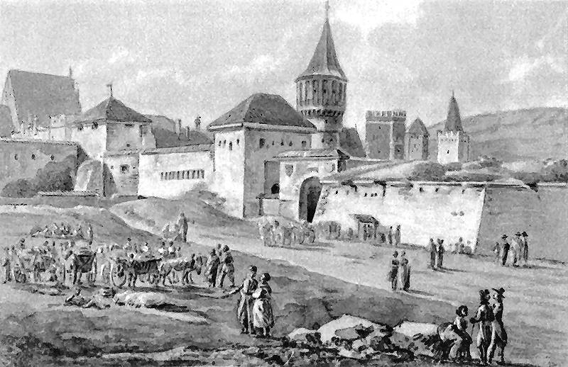 Brama Sławkowska in Kraków. By Zygmunt Vogel (1799)